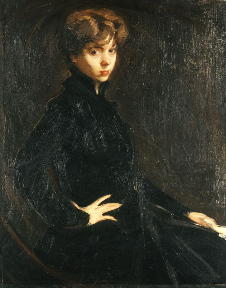 Nikolaos Lytras, Portrait of Miss M. Hors circa 1916-17, oil on canvas 110x84 cm, National Gallery of Greece